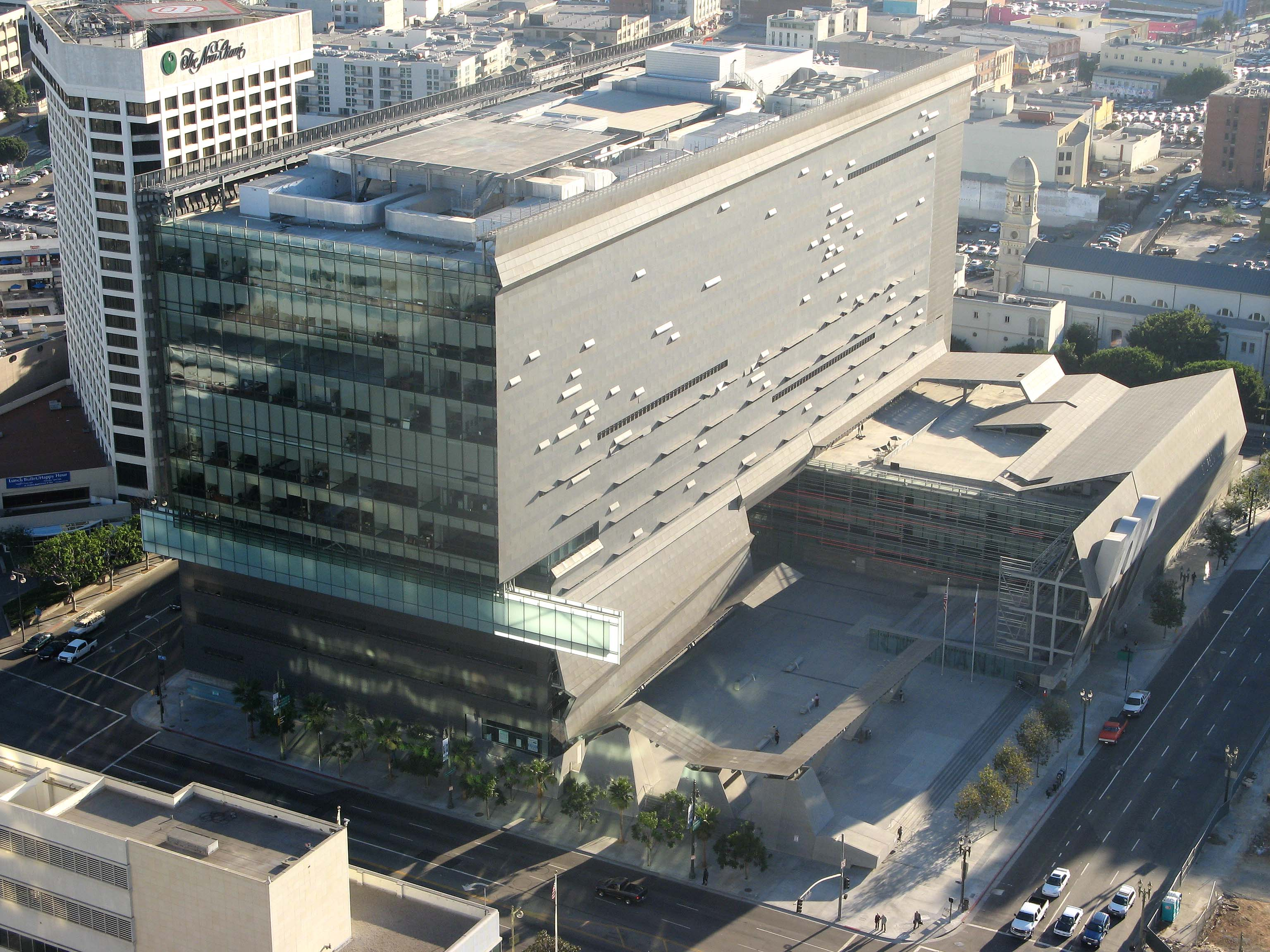 Caltrans District 7 Headquarters — in Downtown Los Angeles. At left: The New Otani hotel (which became the Kyoto Grand hotel in 2008). At right center: Vibiana (the old Cathedral of Saint Vibiana).